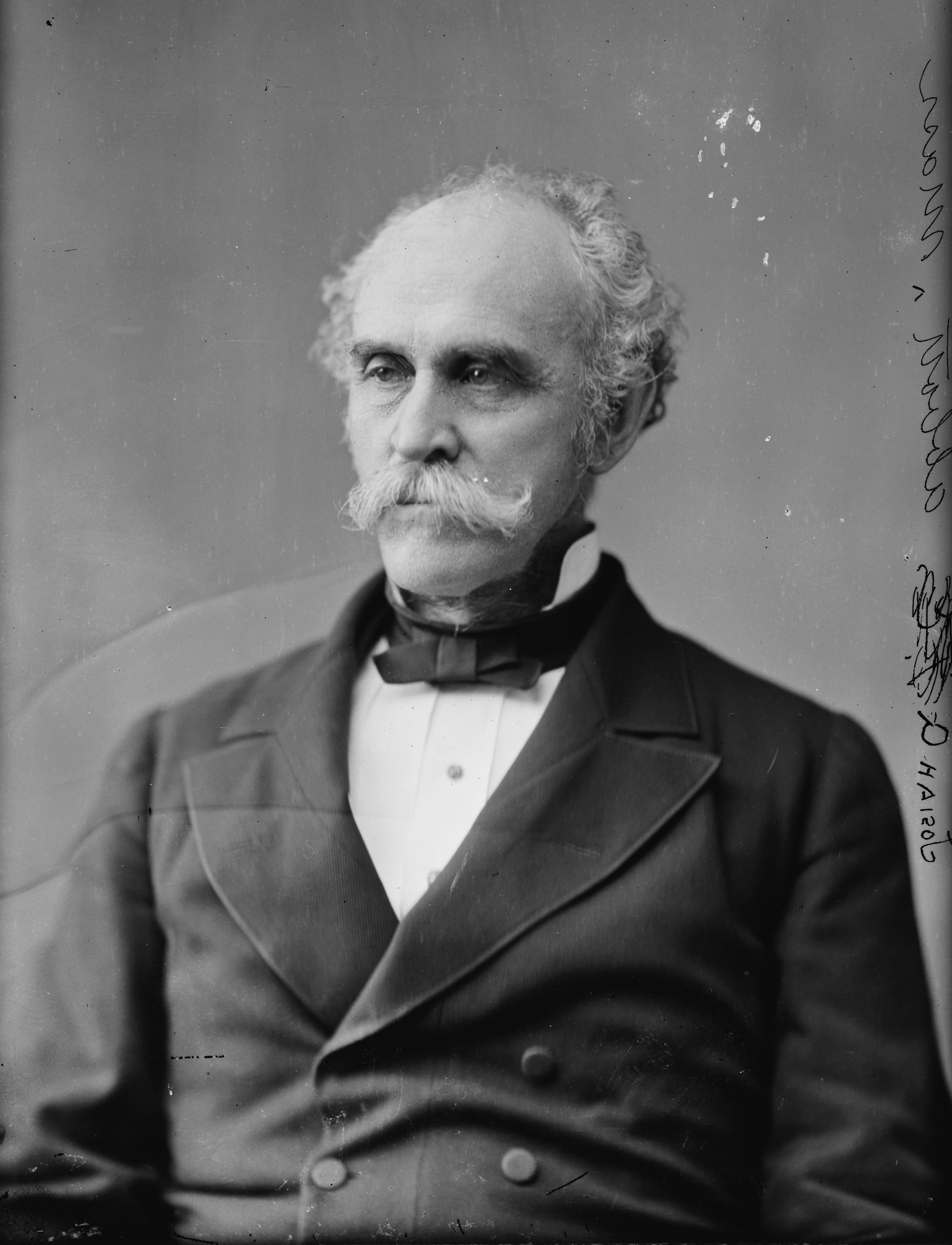 Josiah Gardner Abbott. Library of Congress description: "Abbott, Hon. Josiah, G. of Mass."